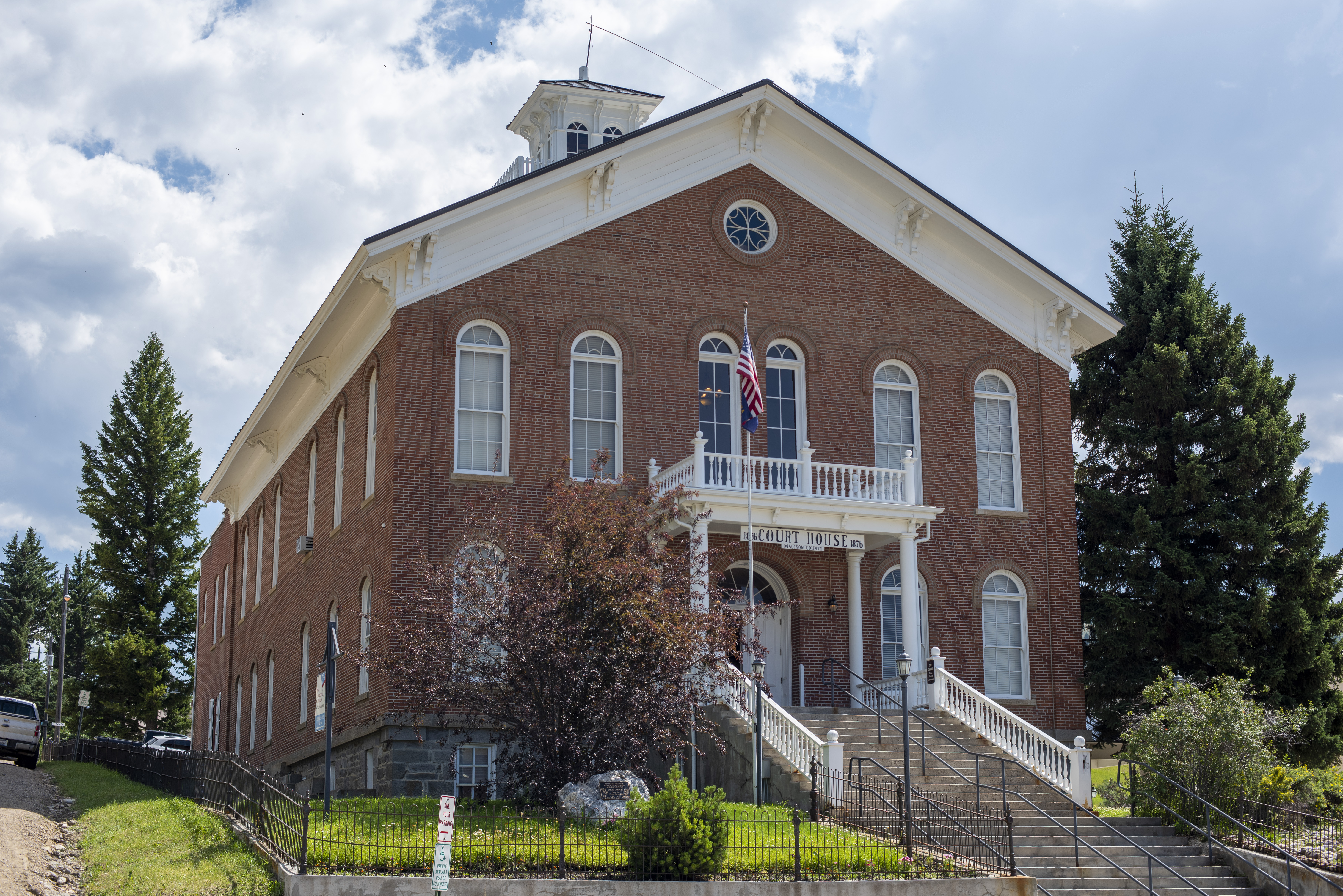 Photograph of the Madison County Courthouse in Virginia City, Montana. Image taken in July 2020.